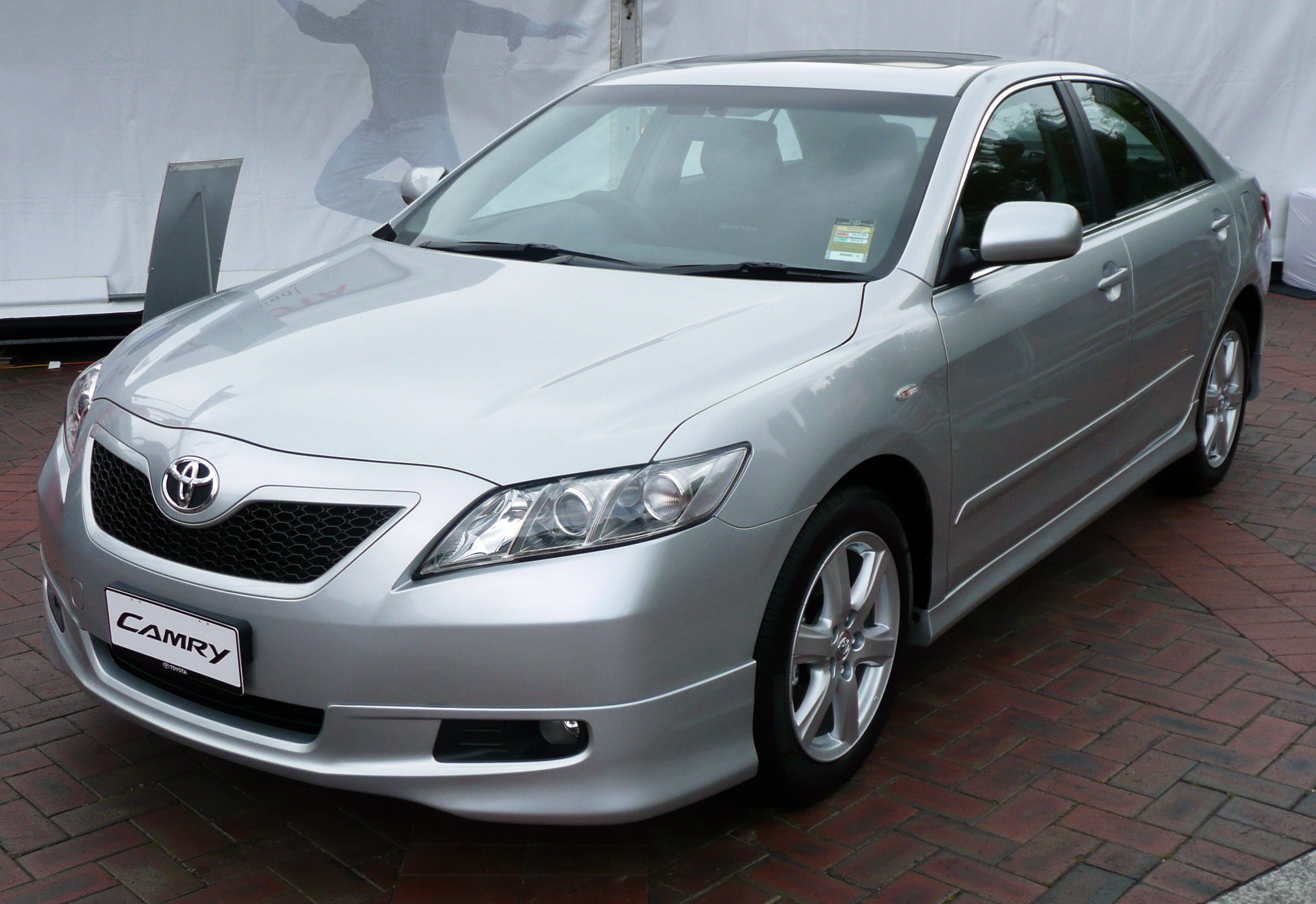 2007 Toyota Camry (ACV40R) Sportivo sedan. Photographed in Sydney, New South Wales, Australia.